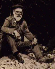 Depicted person: Richard Keene – British photographer